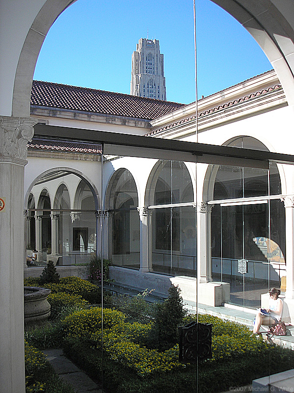 The cloister of the Frick Fine Arts Building at the University of Pittsburgh. photo by Michael G White